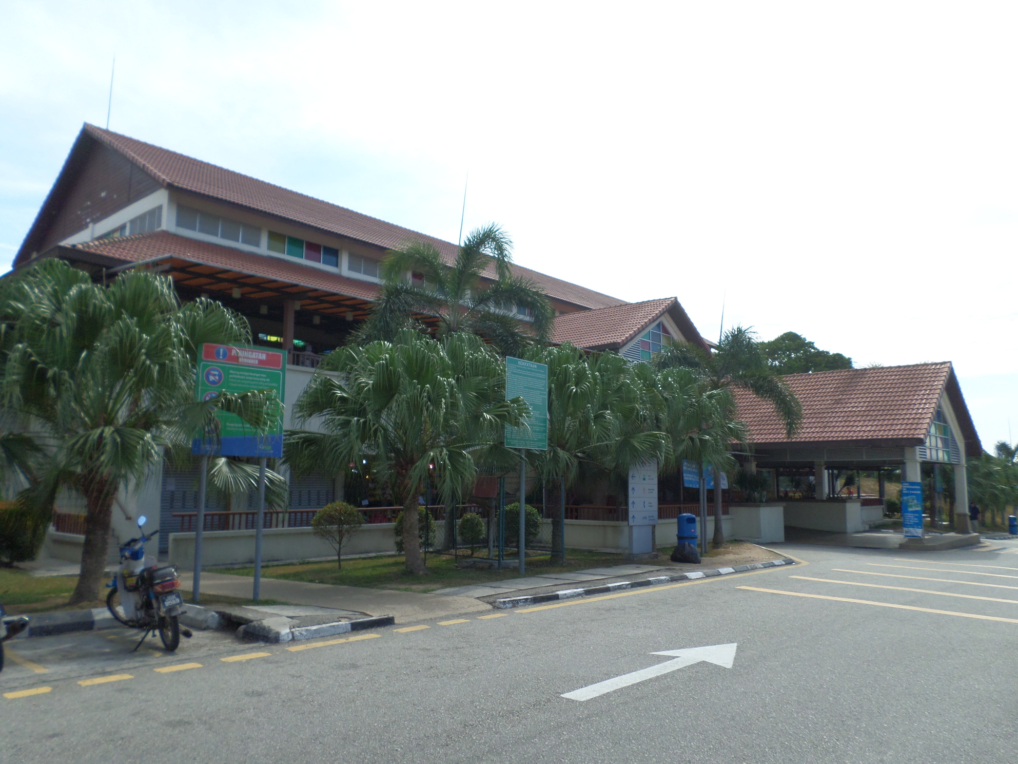 Pagoh Rest Area (Northbound), Pagoh, Muar, Johor, Malaysia